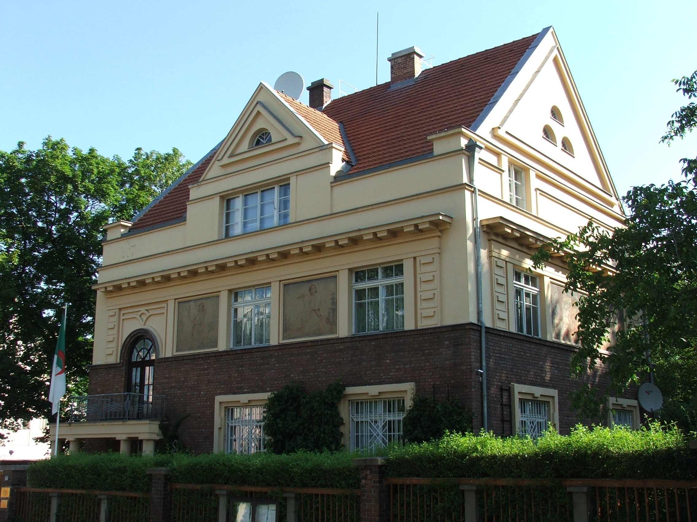 Embassy of Algeria in Prague, Czechia, with murals Idyll and Shepherd’s boy with a German flute by former owner of the villa, Czech painter T. F. Šimon